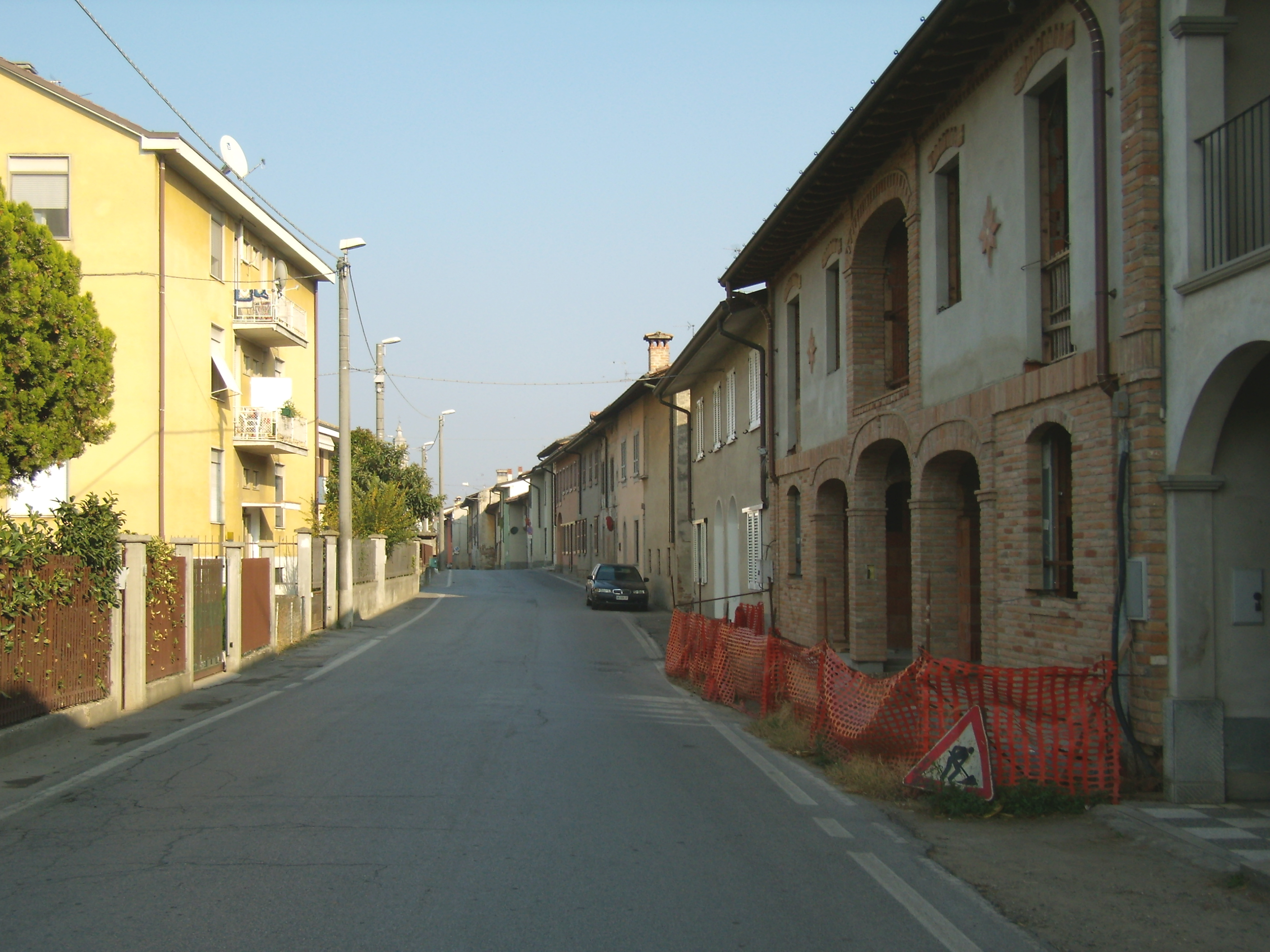 Via Roma in Casaletto Ceredano (CR), Italy